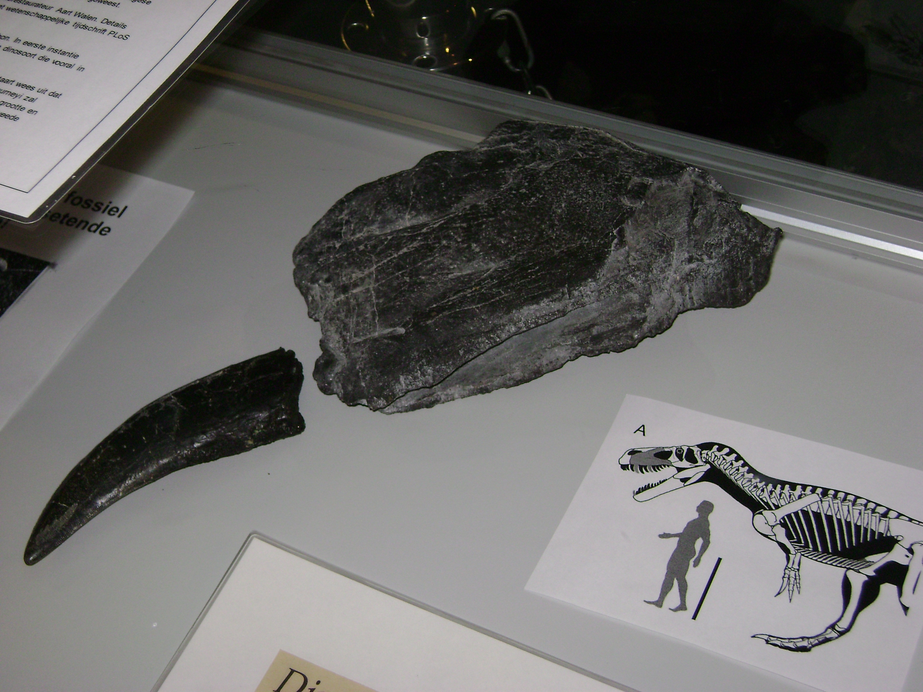 The holotype of Torvosaurus gurneyi